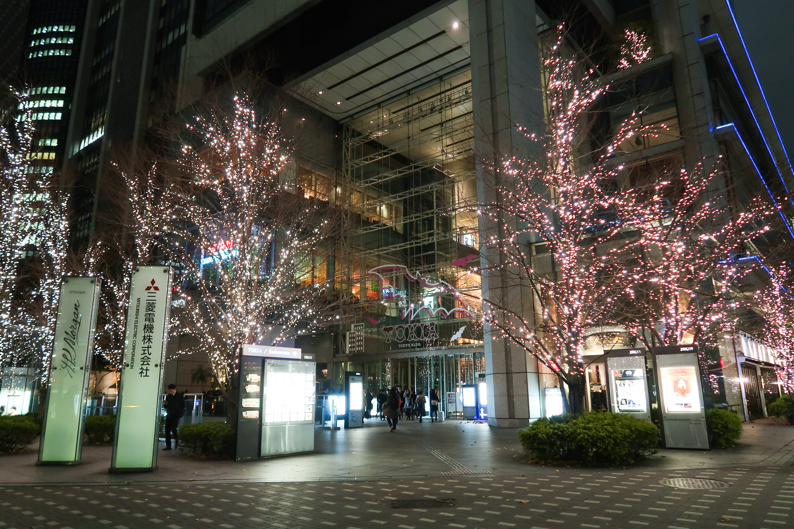 Tokyo Building Entry Plaza